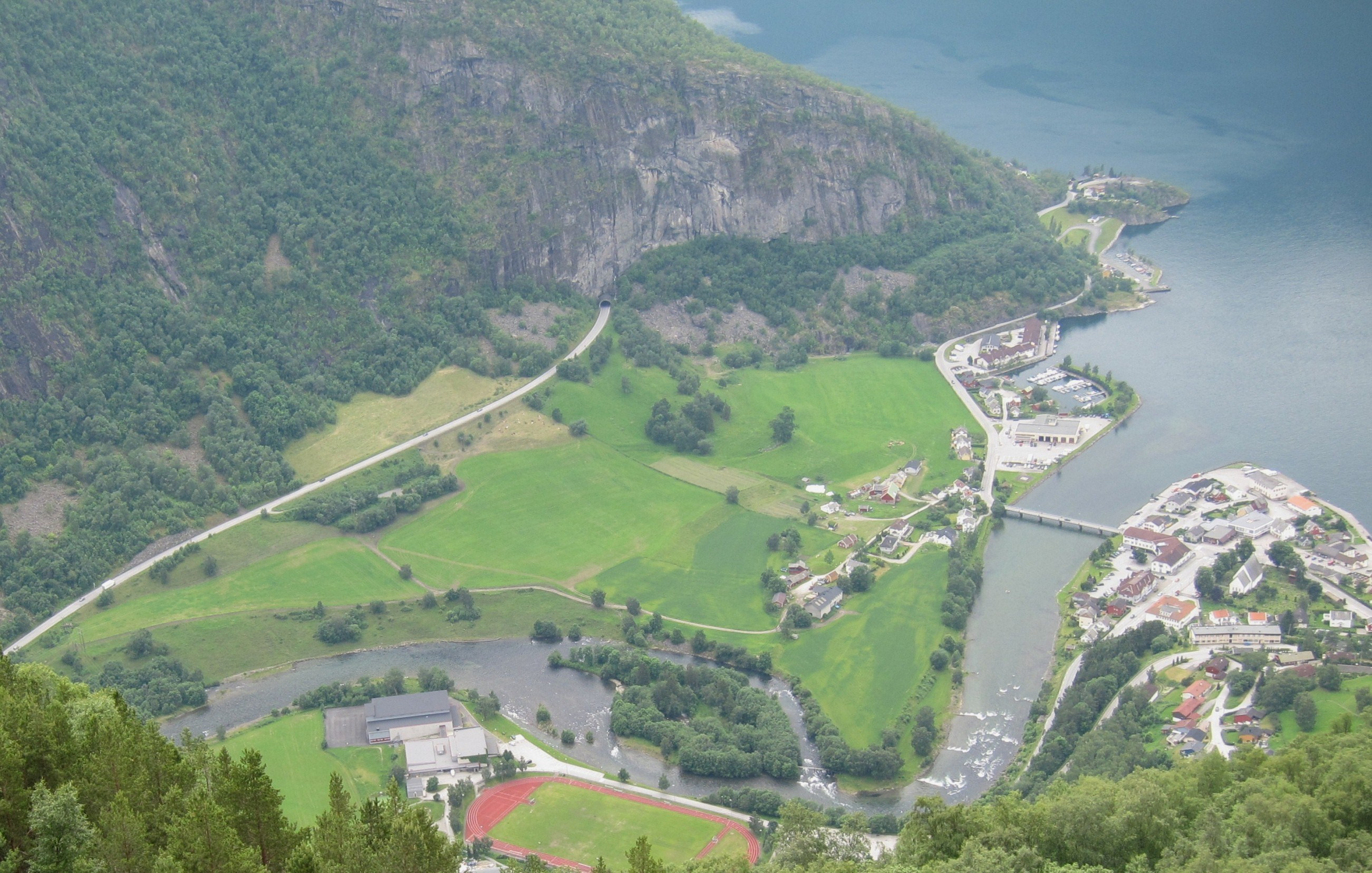 Road E16 (left) at Aurlandsvangen (right), mouth of Onstadtunnelen.